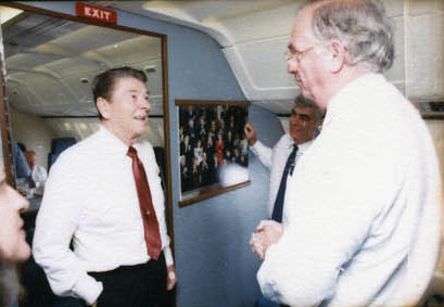 President Ronald Reagan, Lowell Weicker, Christopher Dodd, and James Burnley, (Not in all Photos) (4-27) Trip to Connecticut, flying aboard Air Force One 5/18/1988